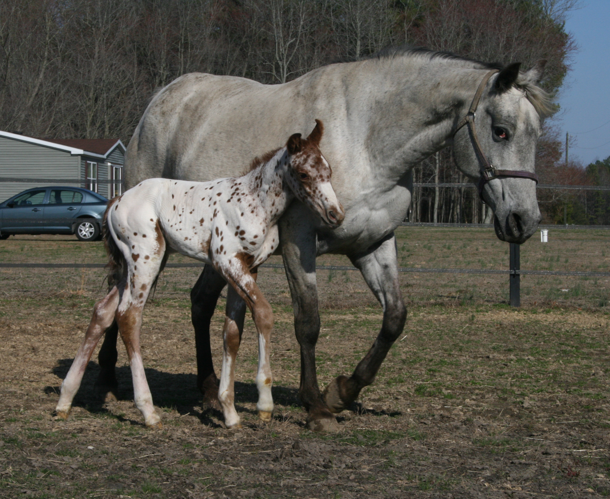 Appaloosa mare with foal